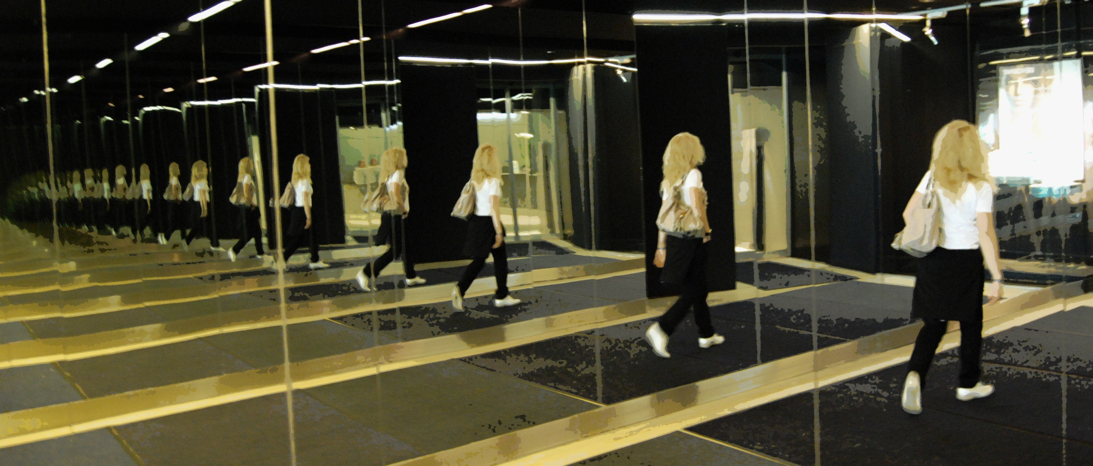 Picture of a woman walking past mirrors.